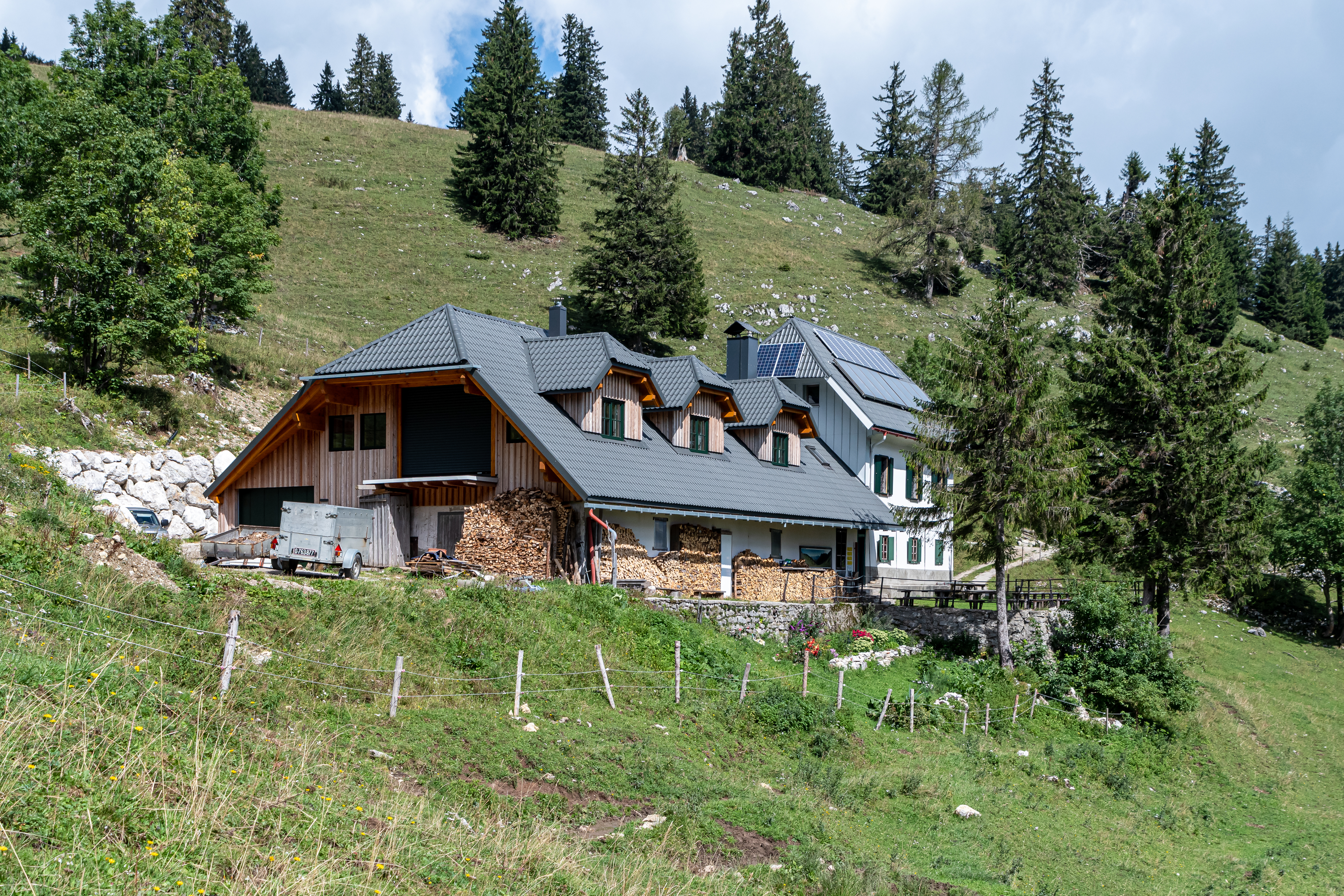 The building of Gradnalm (pasture Gradn) was erected etween 1826 and 1840 by the owners of the scythe forge "am Gries" in Micheldorf, Upper Austria.